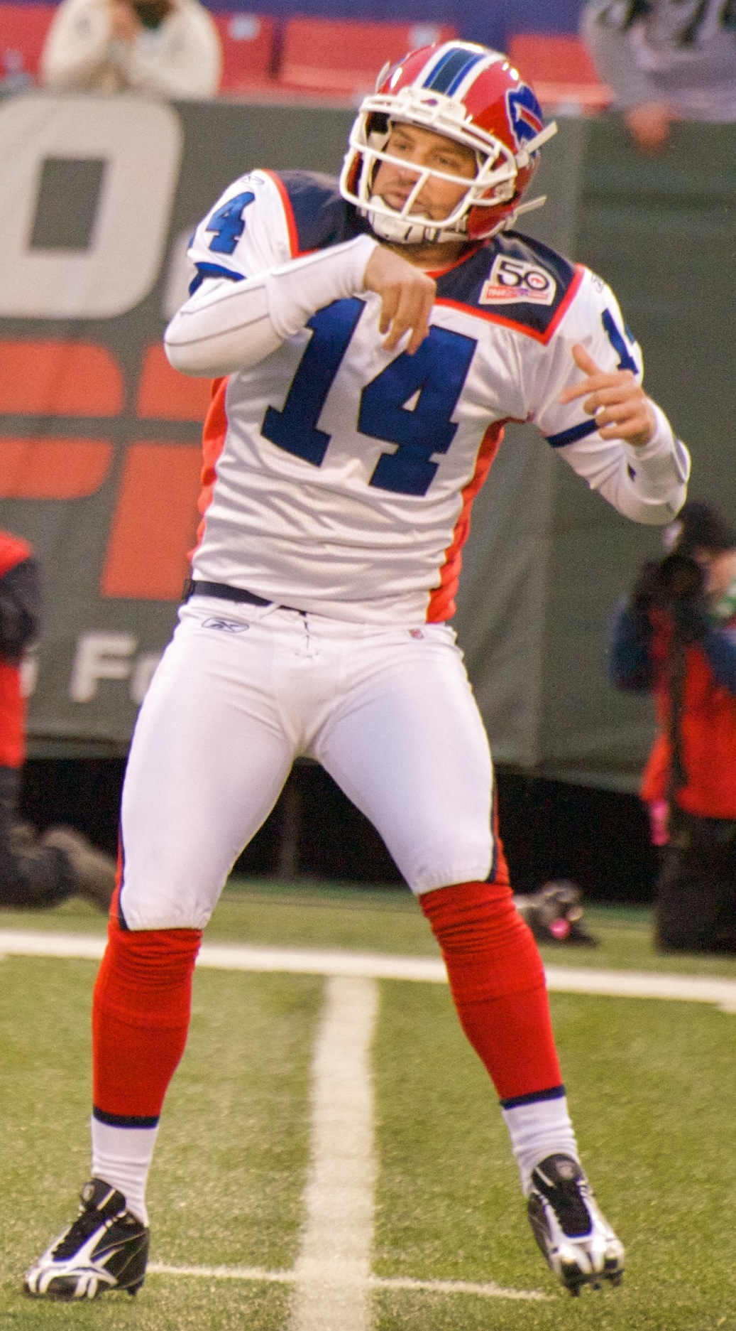 Ryan Fitzpatrick of the Buffalo Bills passing against the New York Jets.